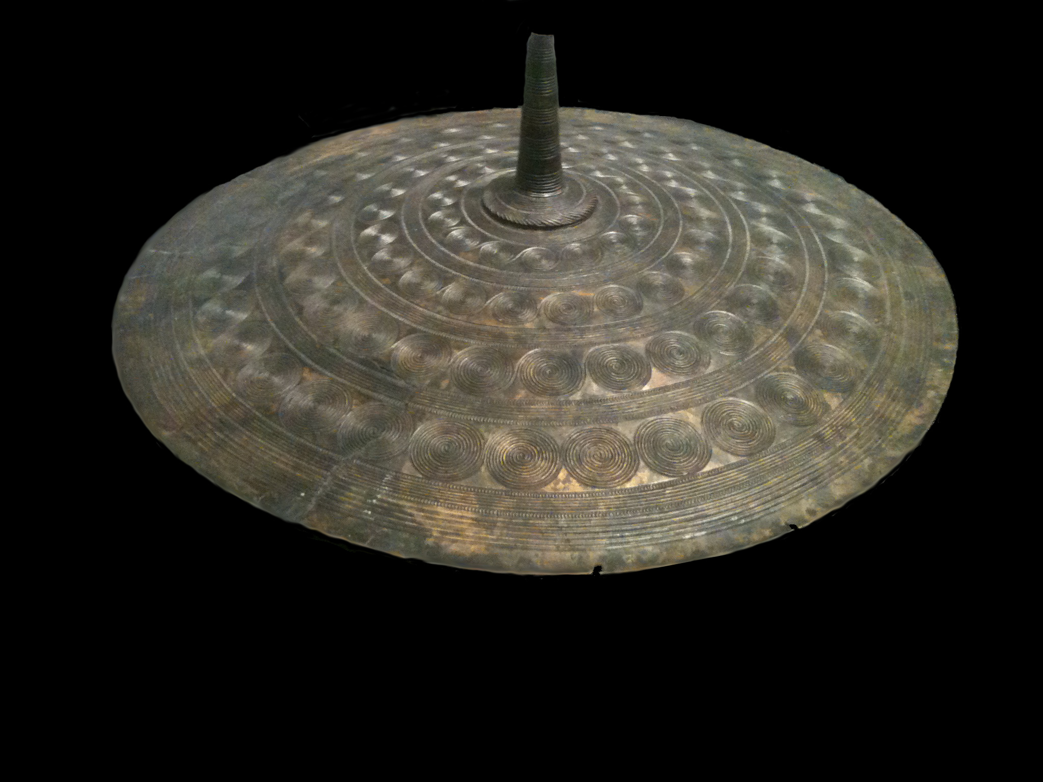 Belt Plate of Langstrup